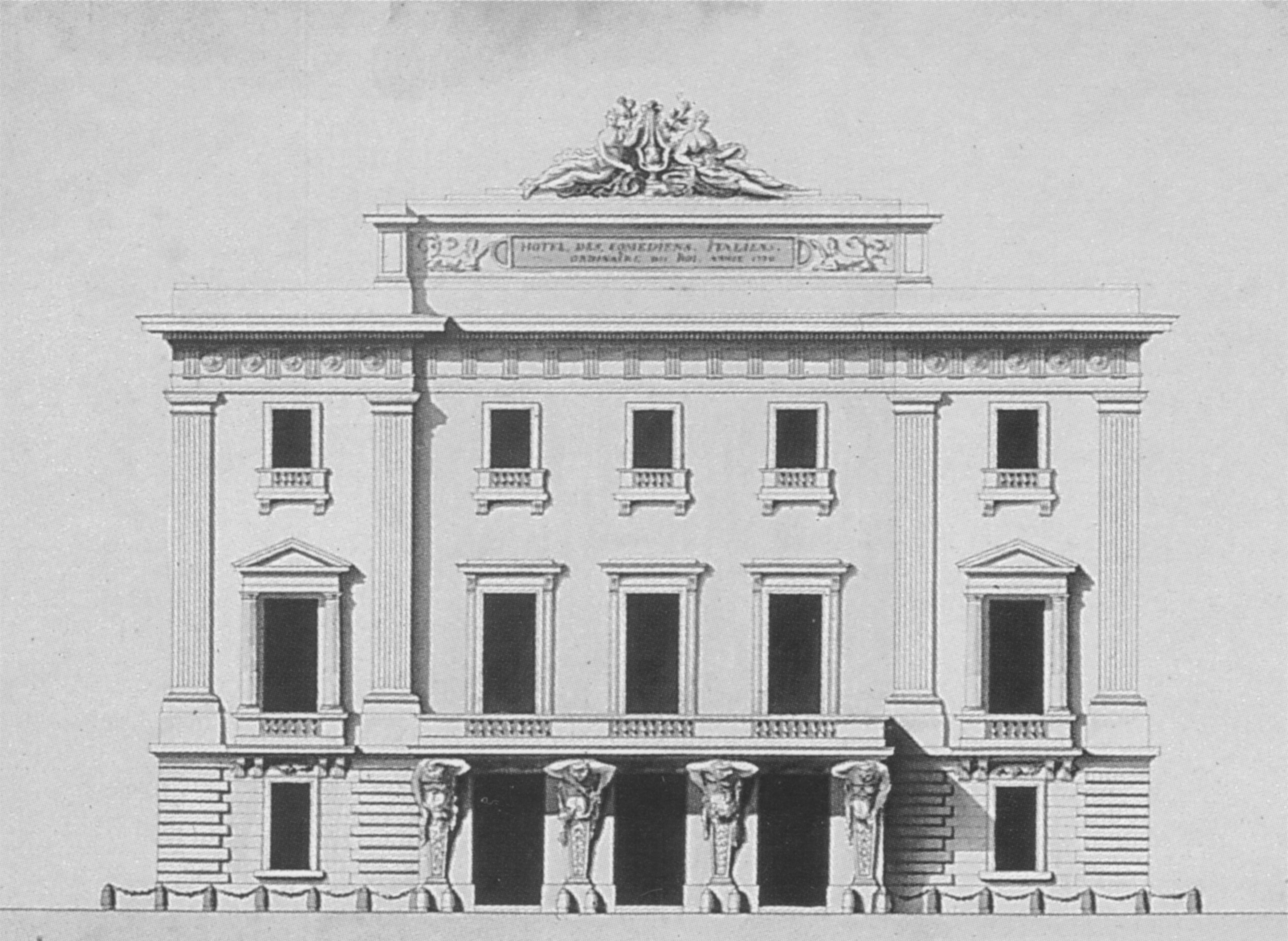 Facade of the theatre known as the Hôtel de Bourgogne at the time it was used by the Comédiens Italiens